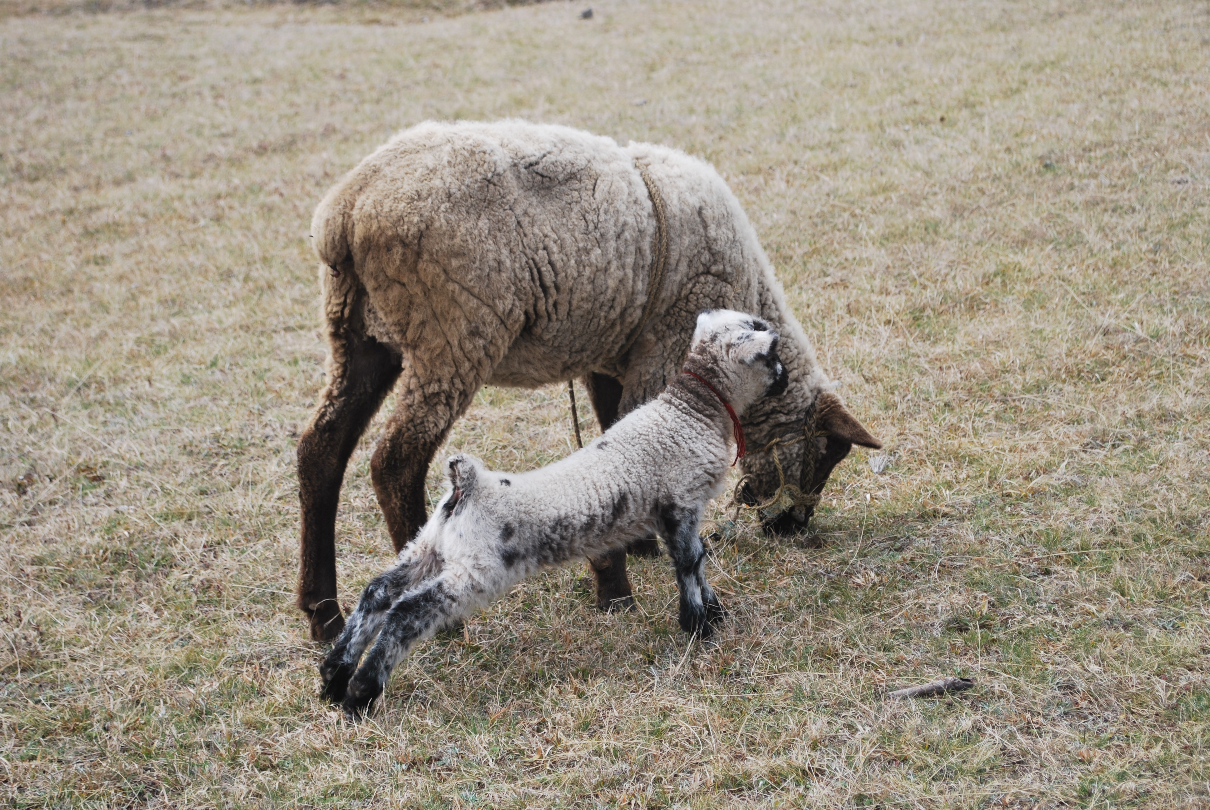 Lamb and mother at the Valle de las Piedras Encimadas park in Zacatlán, Puebla, Mexico